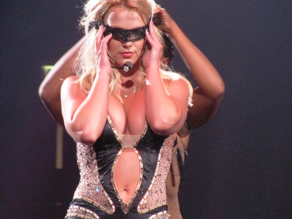 Britney's second show in O2 London - June 4th 2009. .